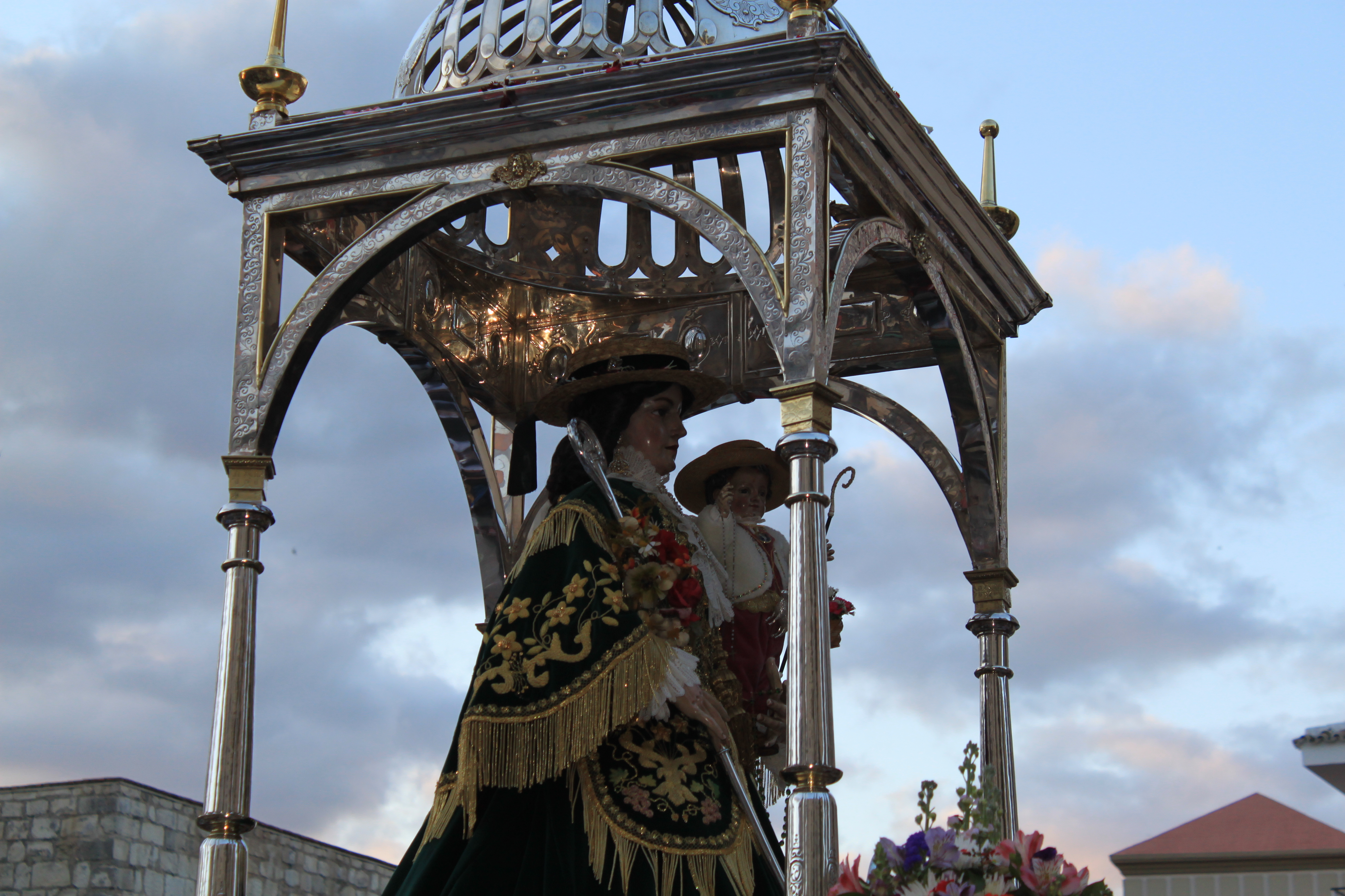 Our Lady of Araceli, of Lucena (Spain), at the romería de bajada (downward pilgrimage), passing by the Castle of the Moral, approaching Lucena. 450th anniversary of her coming to Lucena from Rome.